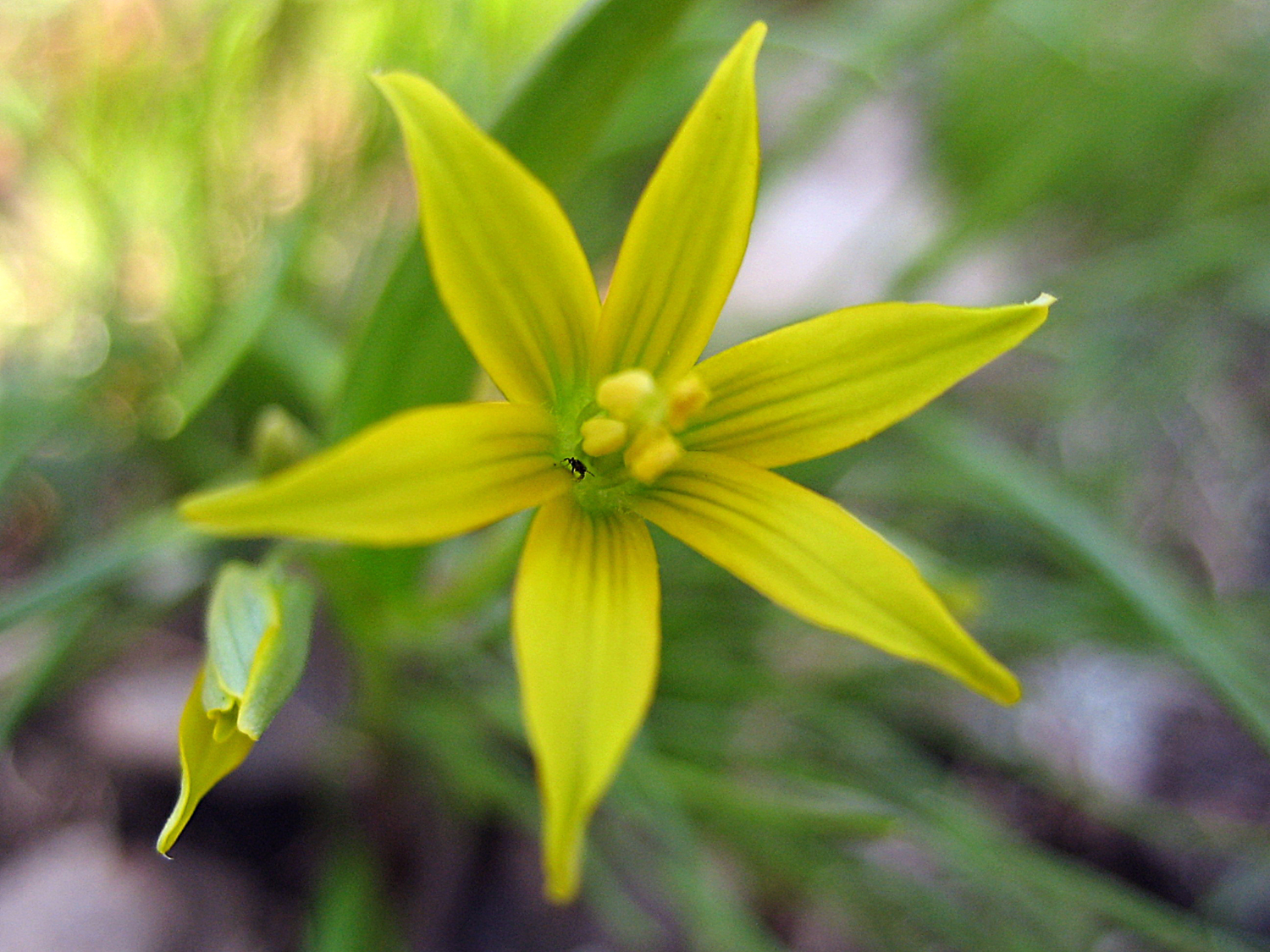 Gagea minima, photographed by myself on May 5, 2006.